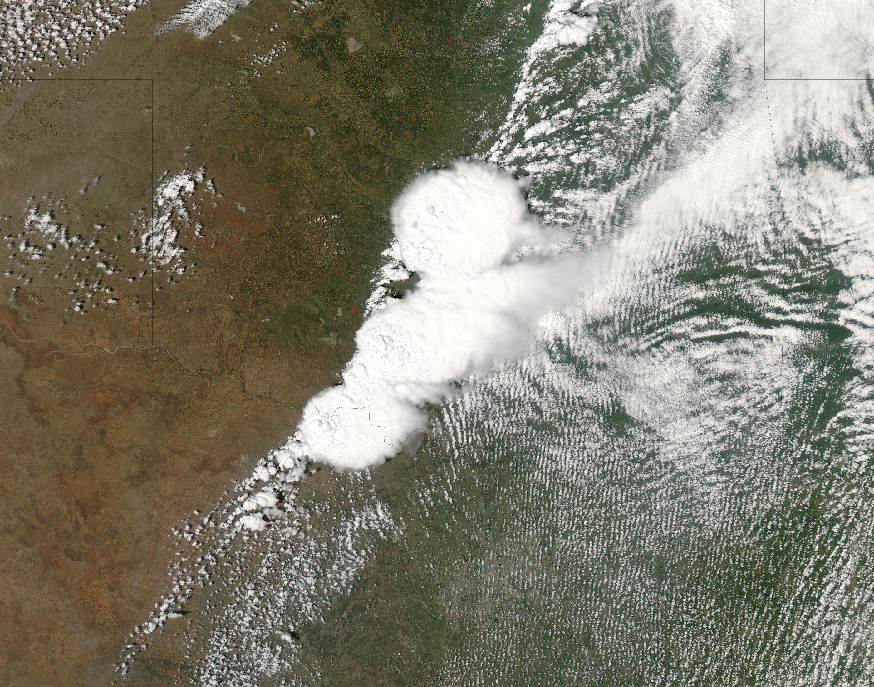 This image of the storm system that generated the EF-5 tornado in Central Oklahoma was taken by NASA's Moderate Resolution Imaging Spectroradiometer (MODIS) instrument aboard one of the Earth Observing System (EOS) satellites. The image was captured on May 20, 2013, at 19:40 UTC (2:40 p.m. CDT) as the tornado began its deadly swath.